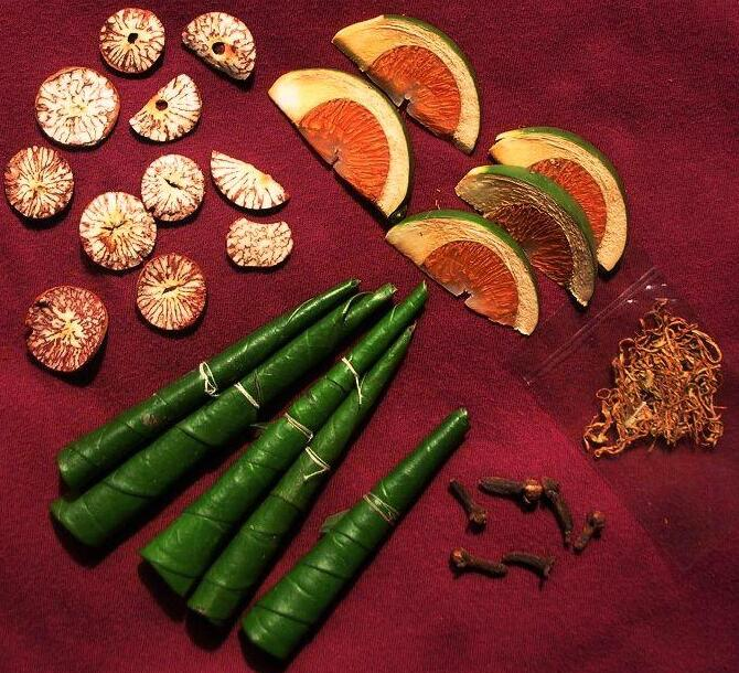 display of betel and nut (Areca catechu),Paan